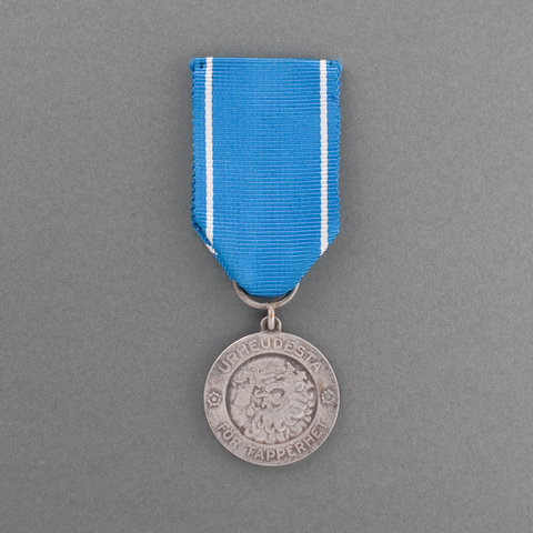 1st class of the Medal of Liberty (wartime merits), Finland (VM 1)